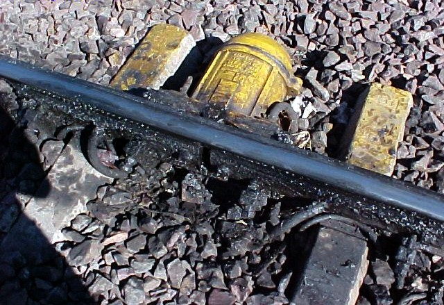 Flange oiler Location: Middelburg, Mpumalanga